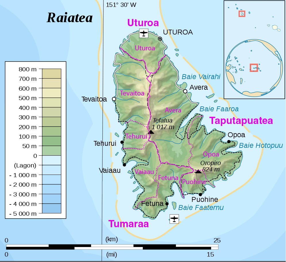 Topographic map of Raiatea, Society Islands, French Polynesia